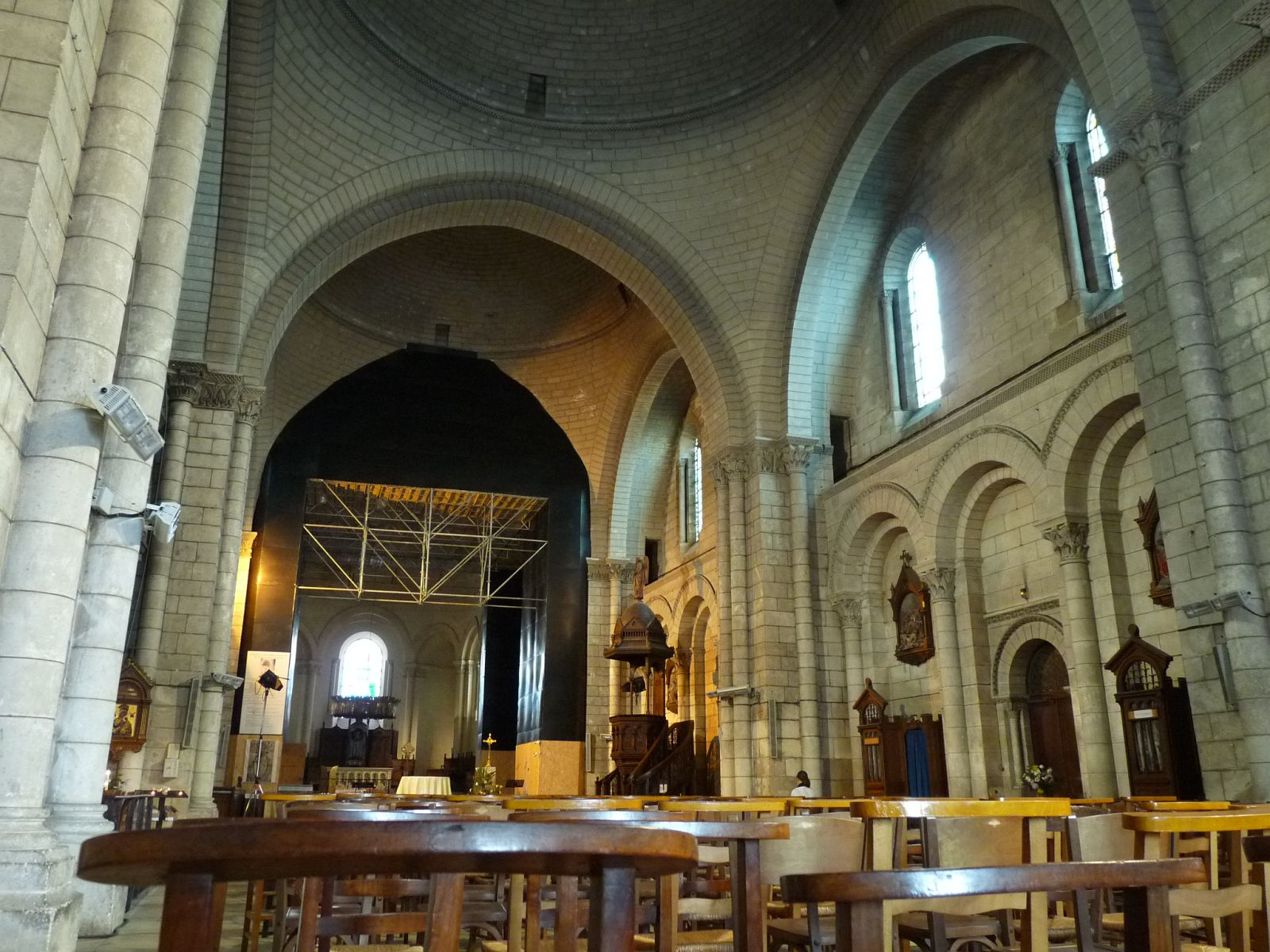 Inside of St Peter's Cathedral, Angoulême, Charente, SW France